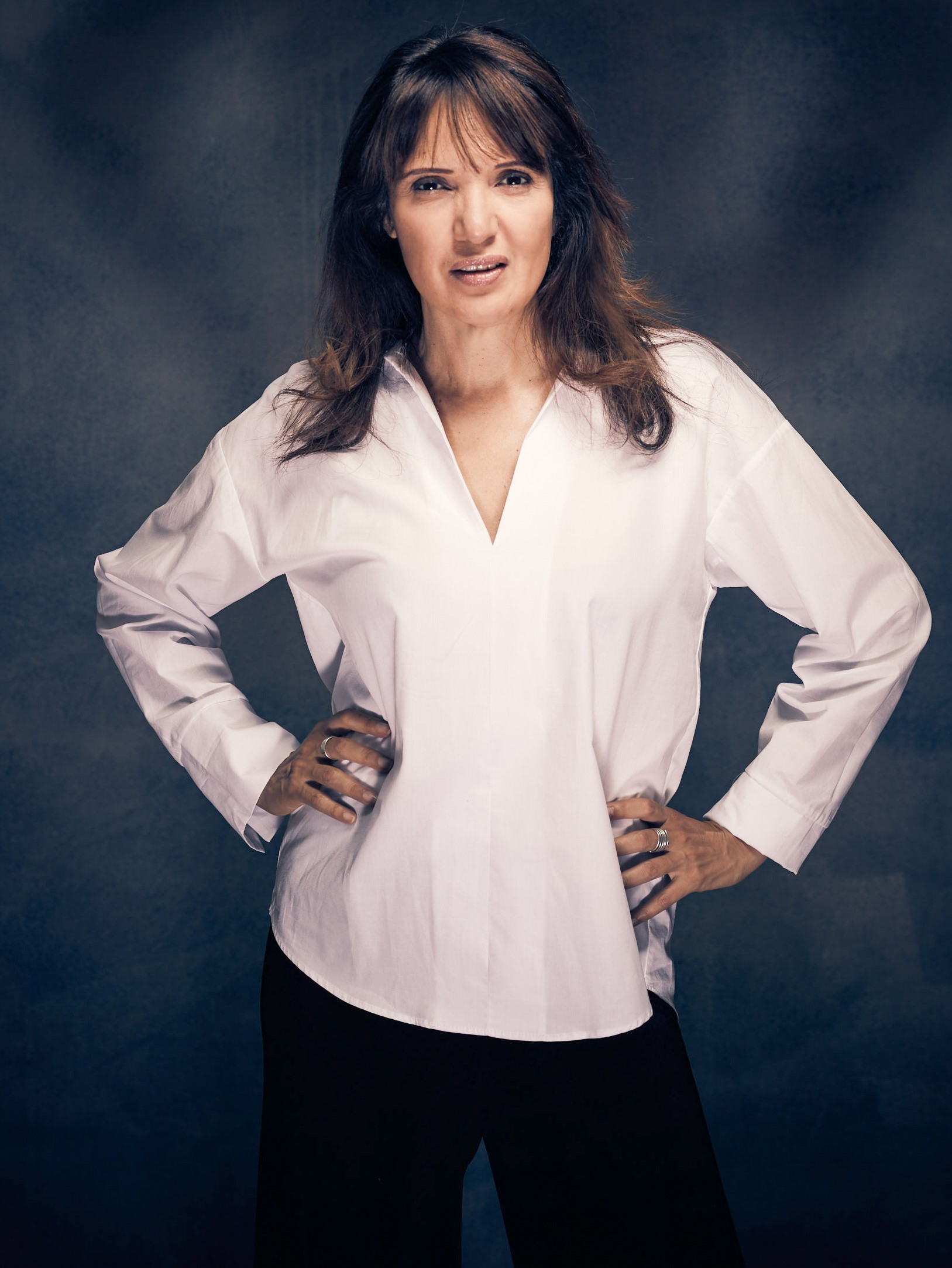 Veronica Cortez, Venezuelan Actress